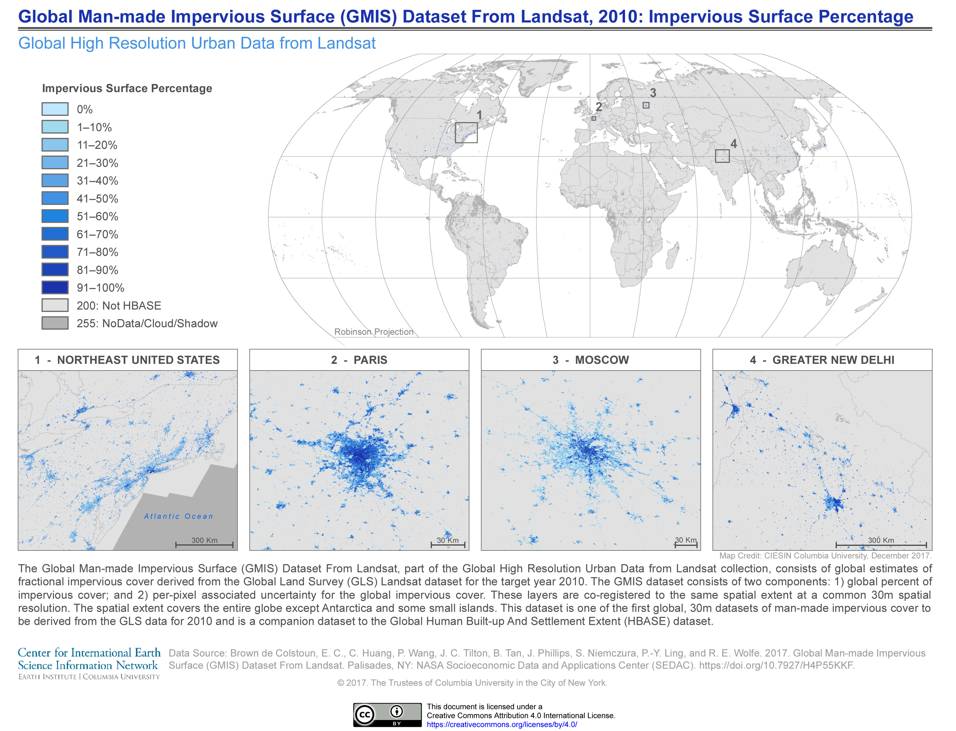 The Global Man-made Impervious Surface (GMIS) Dataset From Landsat, part of the Global High Resolution Urban Data from Landsat collection, consists of global estimates of fractional impervious cover derived from the Global Land Survey (GLS) Landsat dataset for the target year 2010. The GMIS dataset consists of two components: 1) global percent of impervious cover; and 2) per-pixel associated uncertainty for the global impervious cover. These layers are co-registered to the same spatial extent at a common 30m spatial resolution. The spatial extent covers the entire globe except Antarctica and some small islands. This dataset is one of the first global, 30m datasets of man-made impervious cover to be derived from the GLS data for 2010 and is a companion dataset to the Global Human Built-up And Settlement Extent (HBASE) dataset.